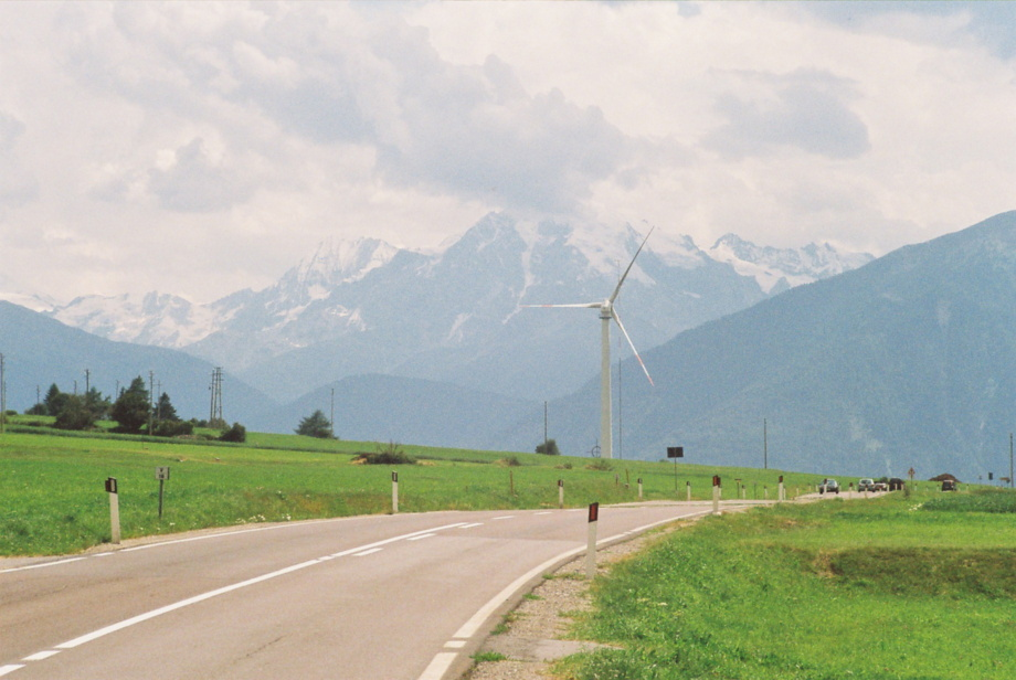 "Reschenpass / Passo di Resia", south ramp, view to the Ortler Alps / Gruppo dell' Ortles-Cevedale. in the center the Ortler / Órtles (summit hidden in clouds) and left of Ortler the Königspitze / Gran Zebrù.